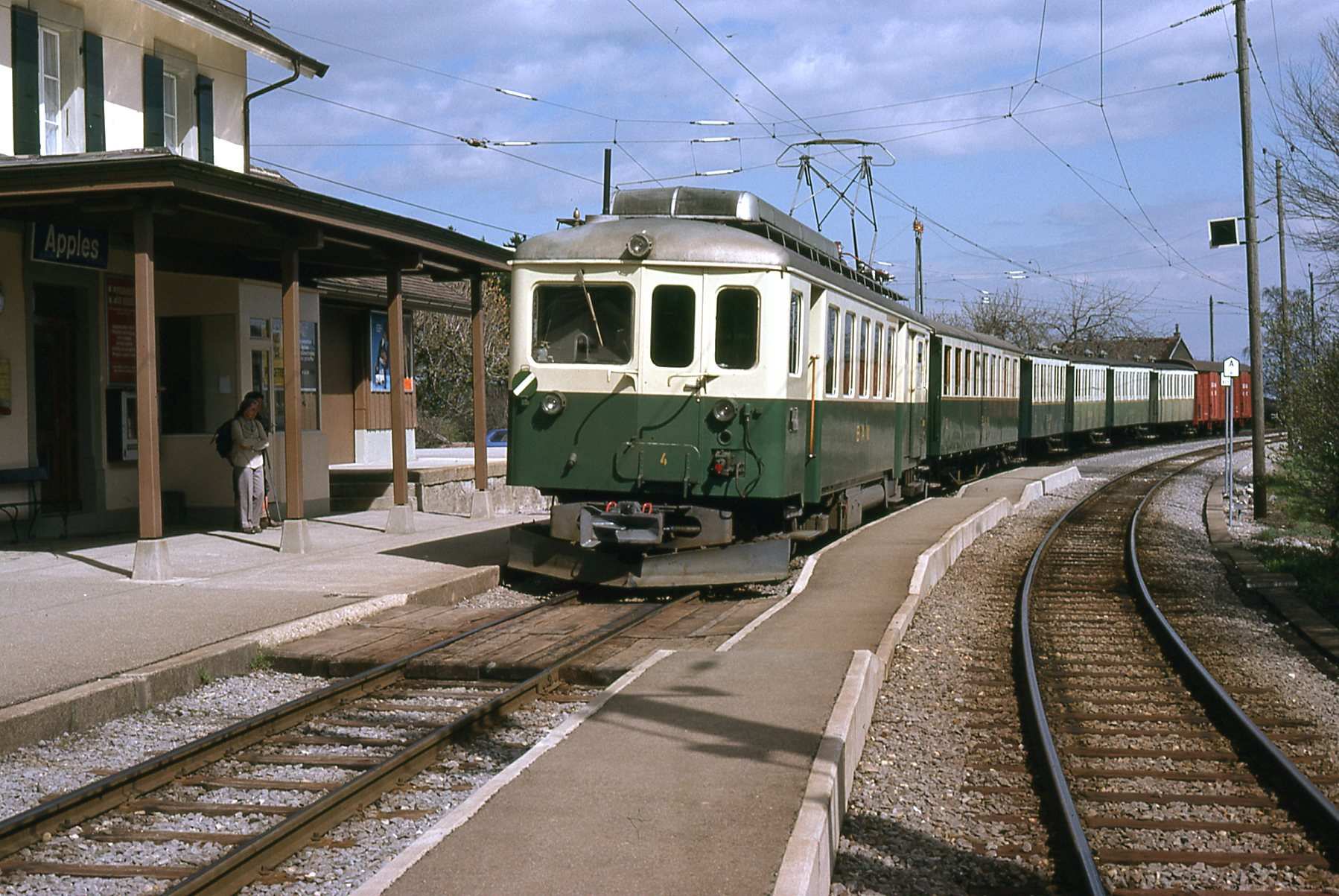 BAM train at Apples.